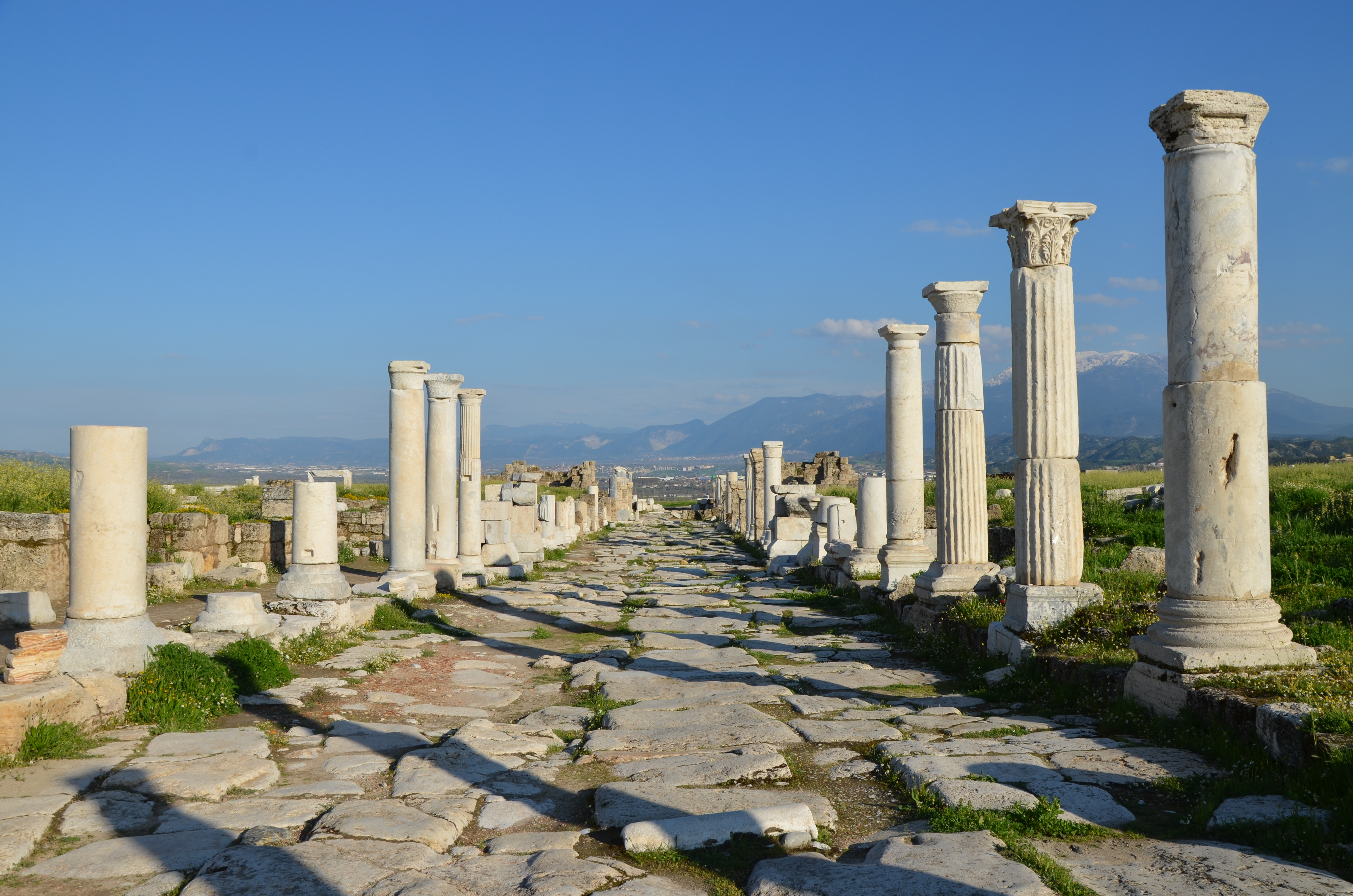 Laodicea on the Lycus, Phrygia, Turkey